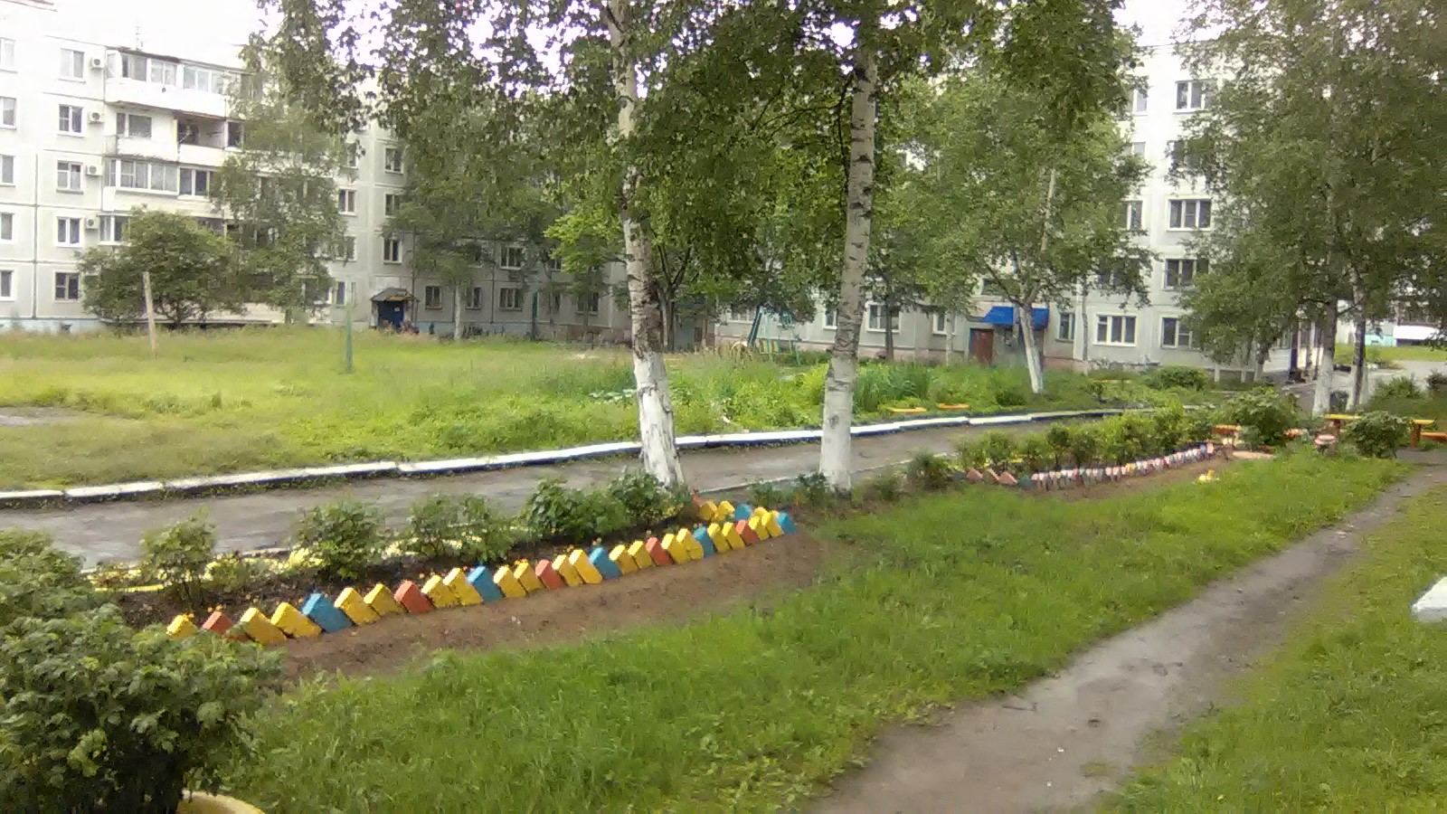 Жилмассив